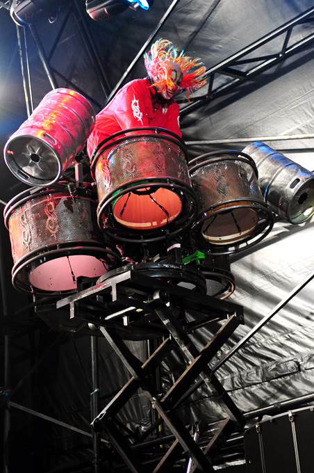 Soundwave Festival 2012